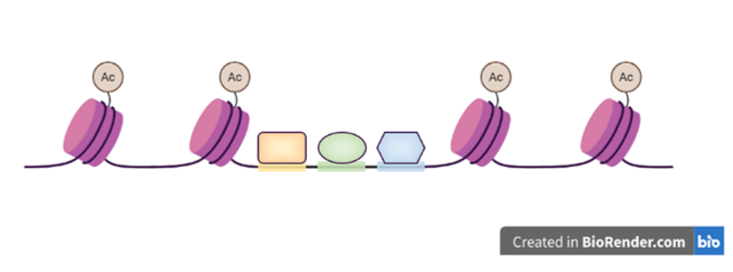 epigenetic modifications of enhancers